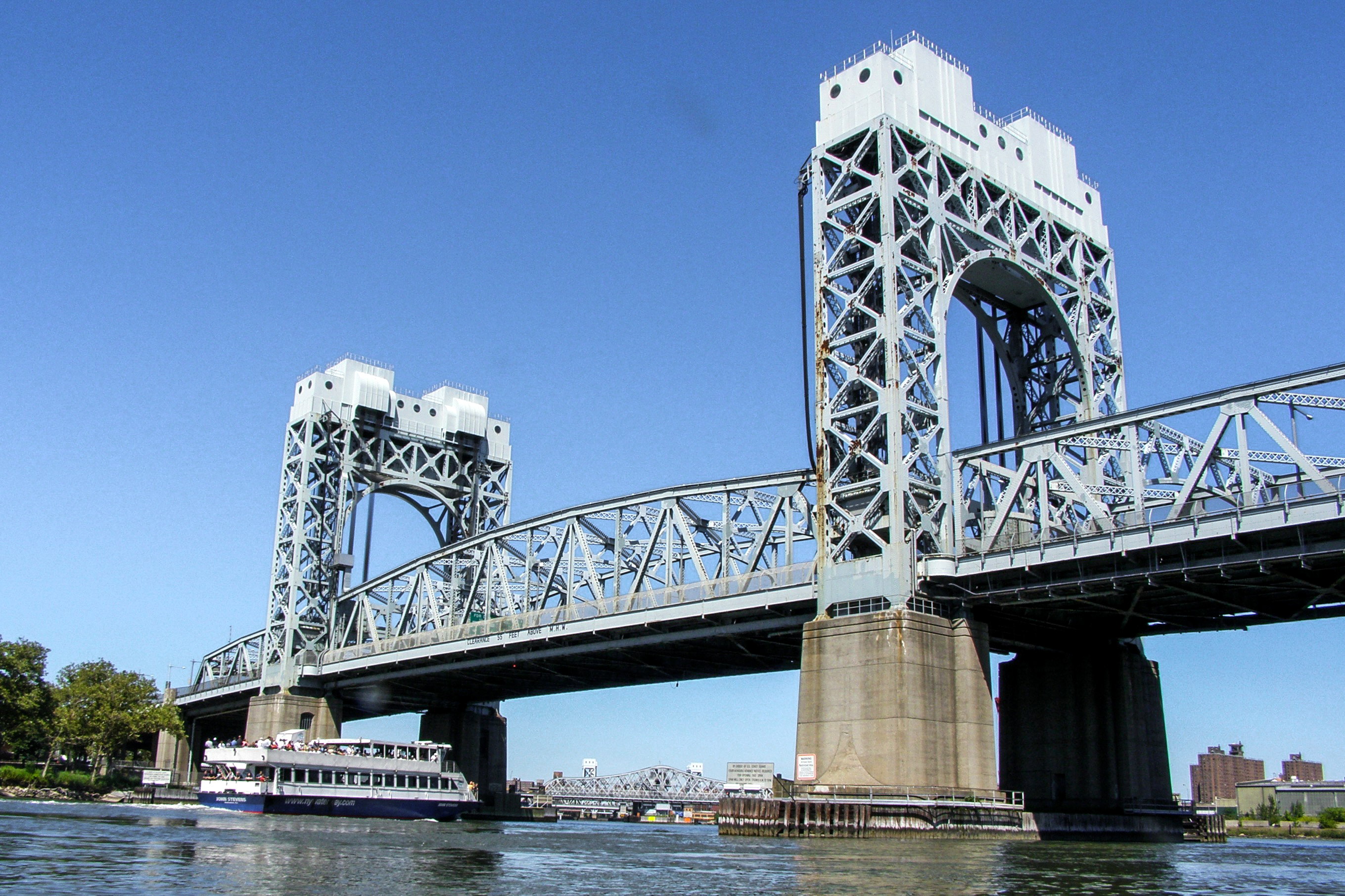 Robert F. Kennedy Bridge (Triborough Lift Bridge) over the Harlem River, East Harlem to Randall's Island, Manhattan, New York City